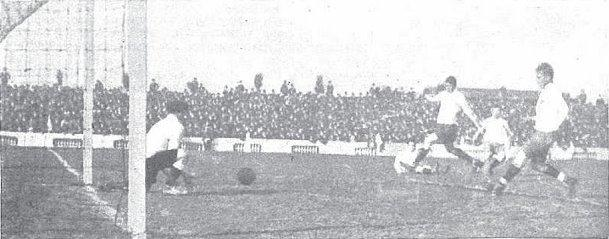 Octavio Díaz 1920